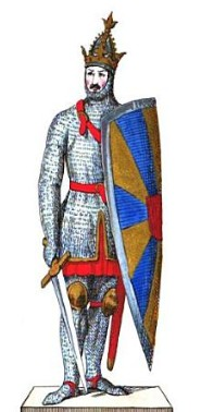 Arnulf II, Count of Flanders